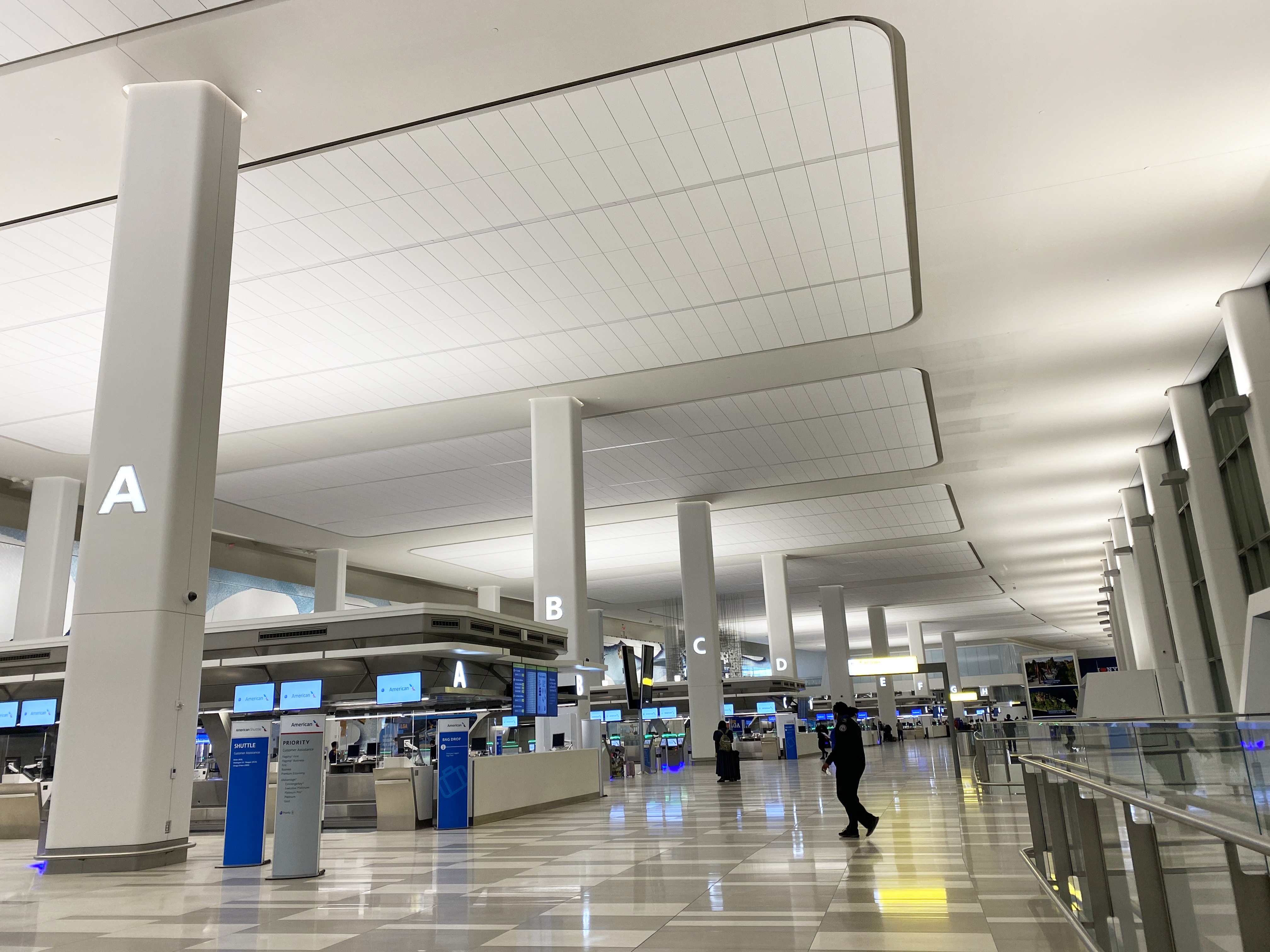 LaGuardia Airport new terminal, opened in 2020